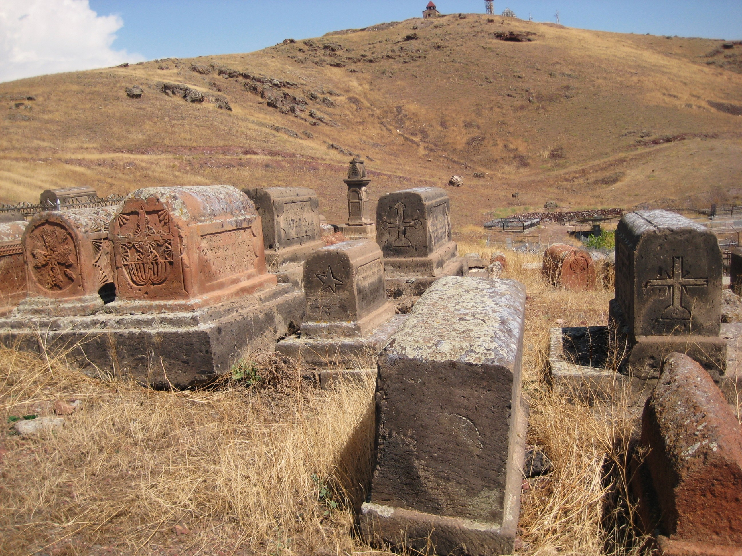 Cemetery below Didikond Hill at Oshakan.